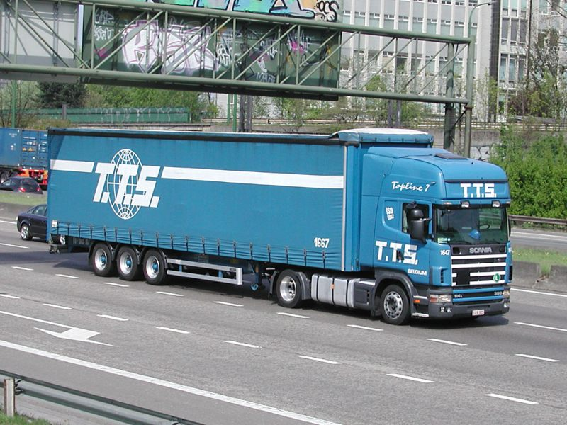 This picture can be found in gallery Scania AB